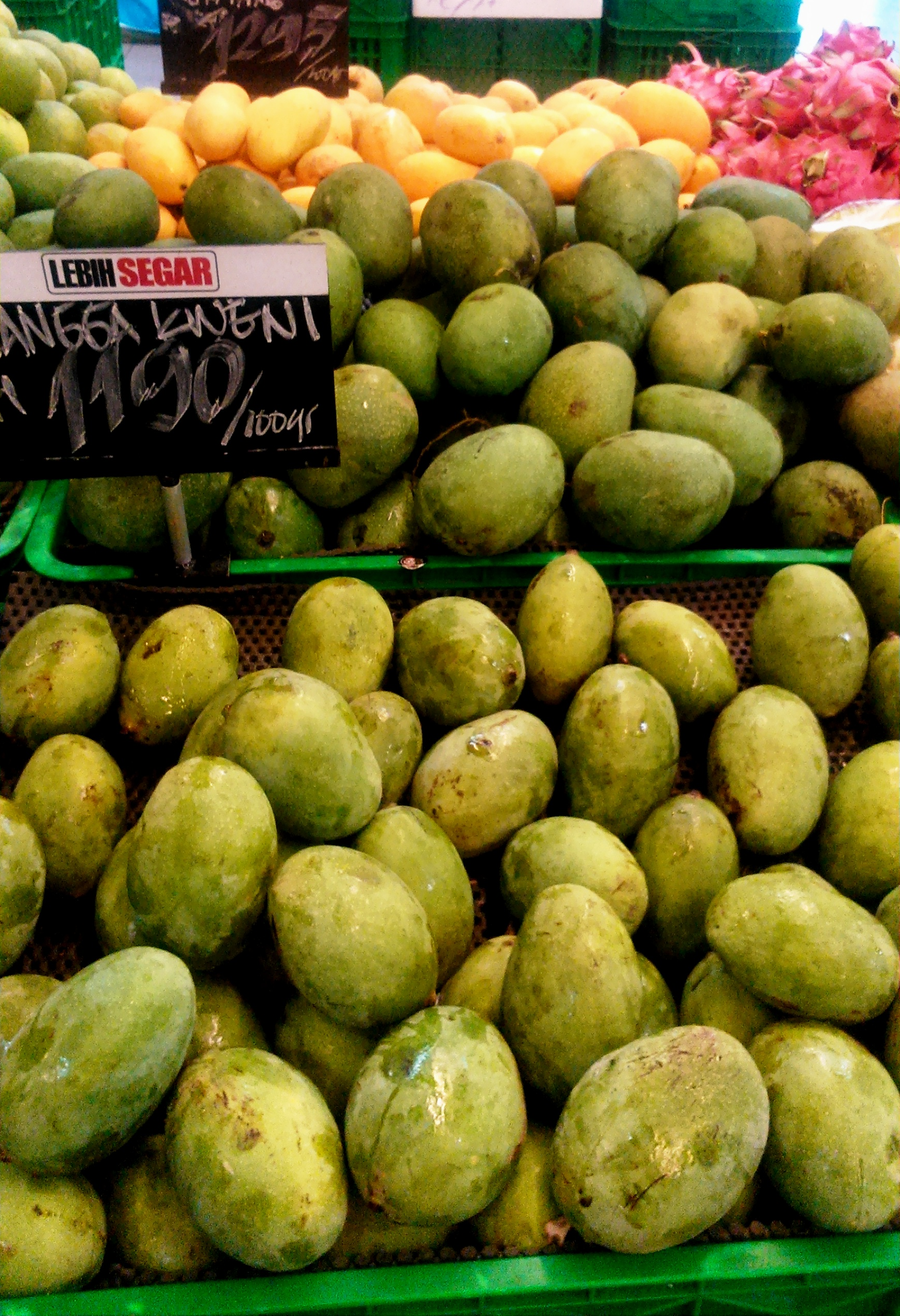 Kwini, sold in a market in Indonesia